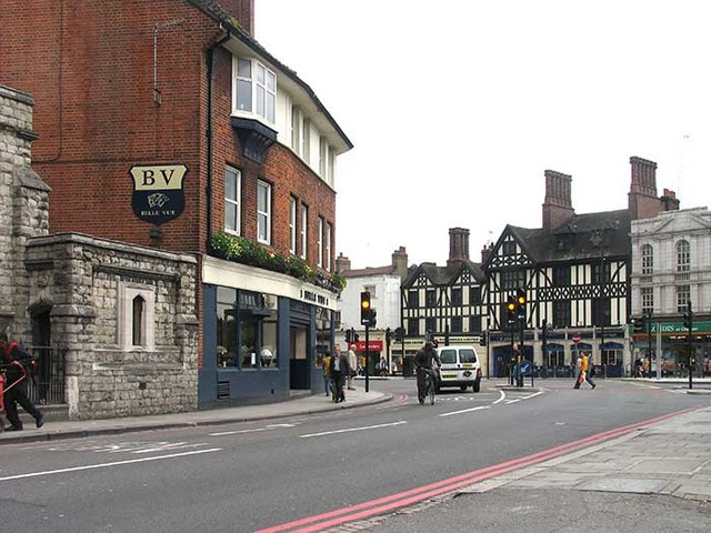 Clapham Park Road, London SW4